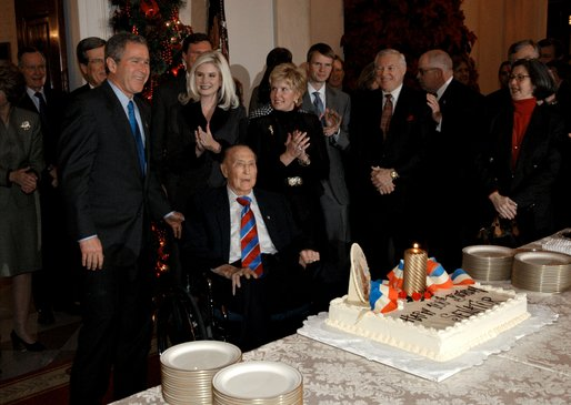 President George W. Bush wishes Sen. Strom Thurmond happy birthday during a birthday celebration at the White House Dec. 6, 2002. The South Carolina senator turned 100 years old Thursday. White House photo by Eric Draper.